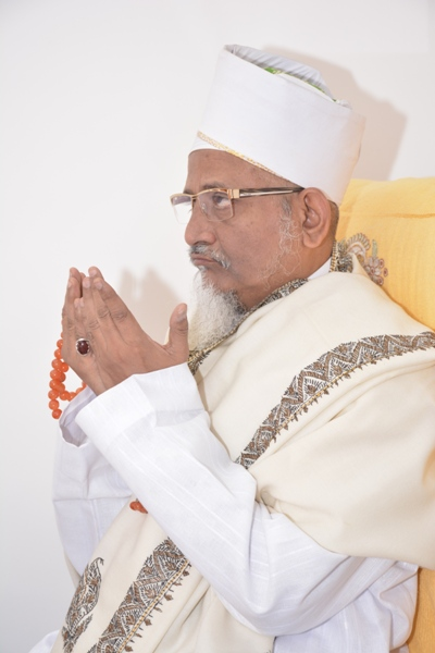 Alavi Bohras- Aqaa Maulaa Saiyedna saheb Haatim Zakiyuddin. He is the 45th Spiritual & Temporal Head of Global Alavi Bohra Community